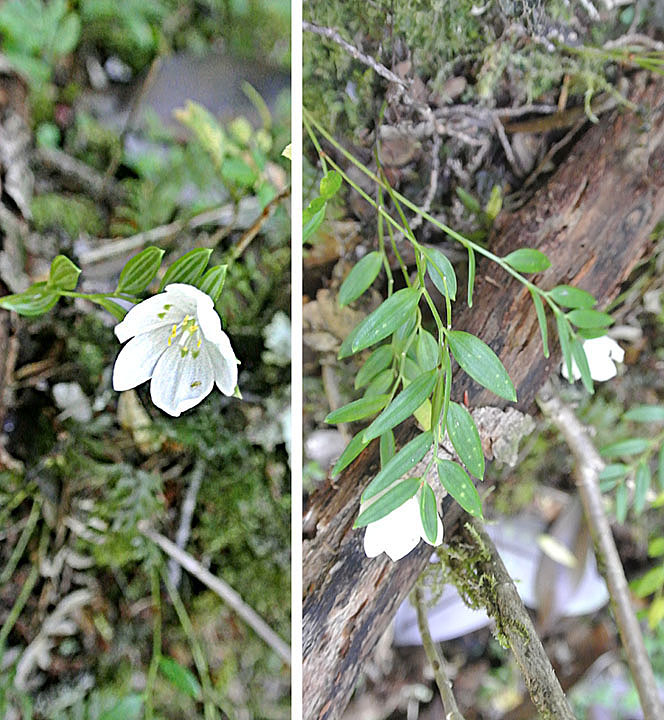 An epiphytic herb of the Alstroemeriaceae, attaching to tree bark in southern Chile. The indigenous name is Quilineja.